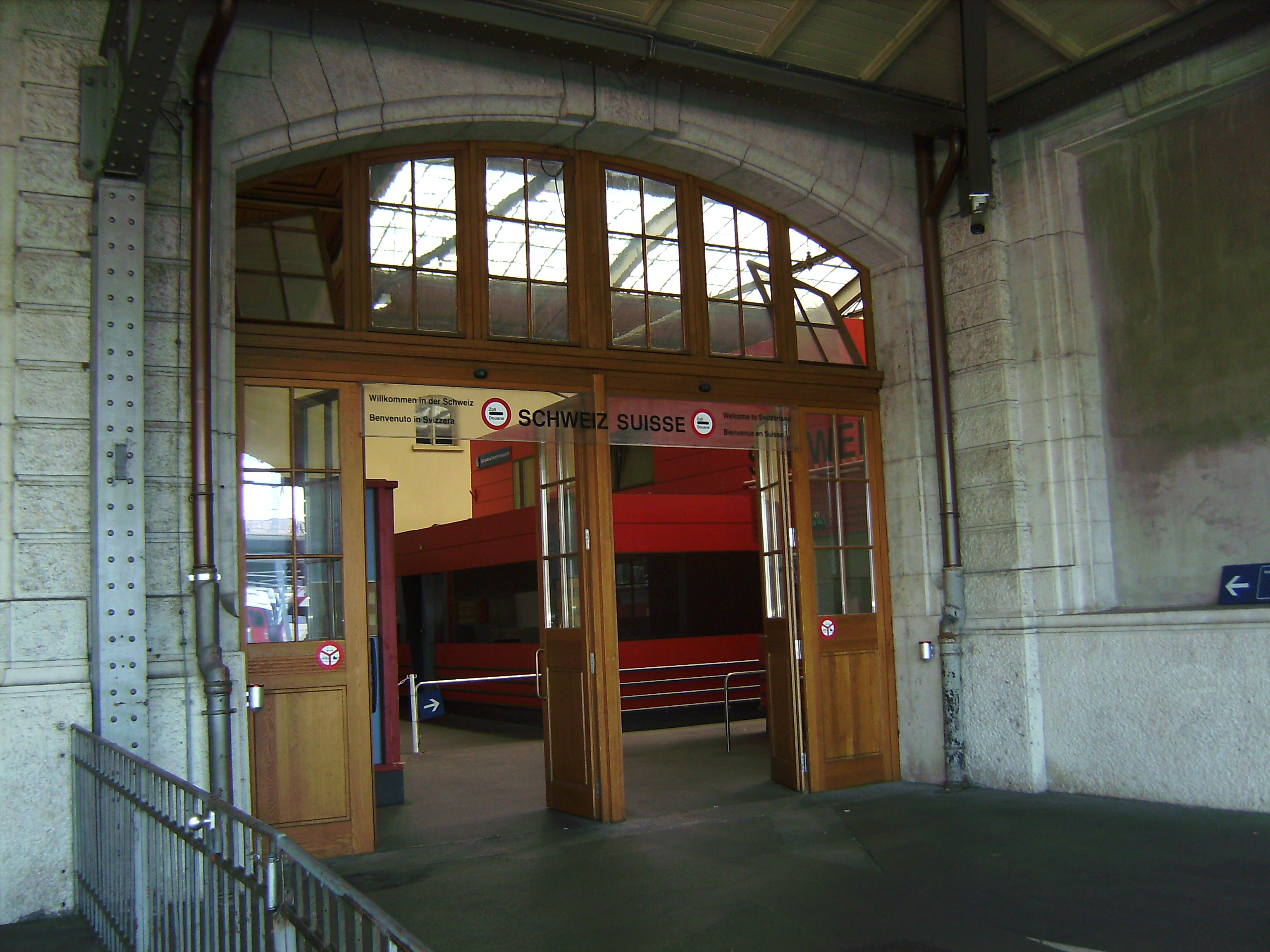 Border crossing that separates French (Bâle SNCF) and Swiss (Basel SBB) parts of the Basel main train station, seen from France.